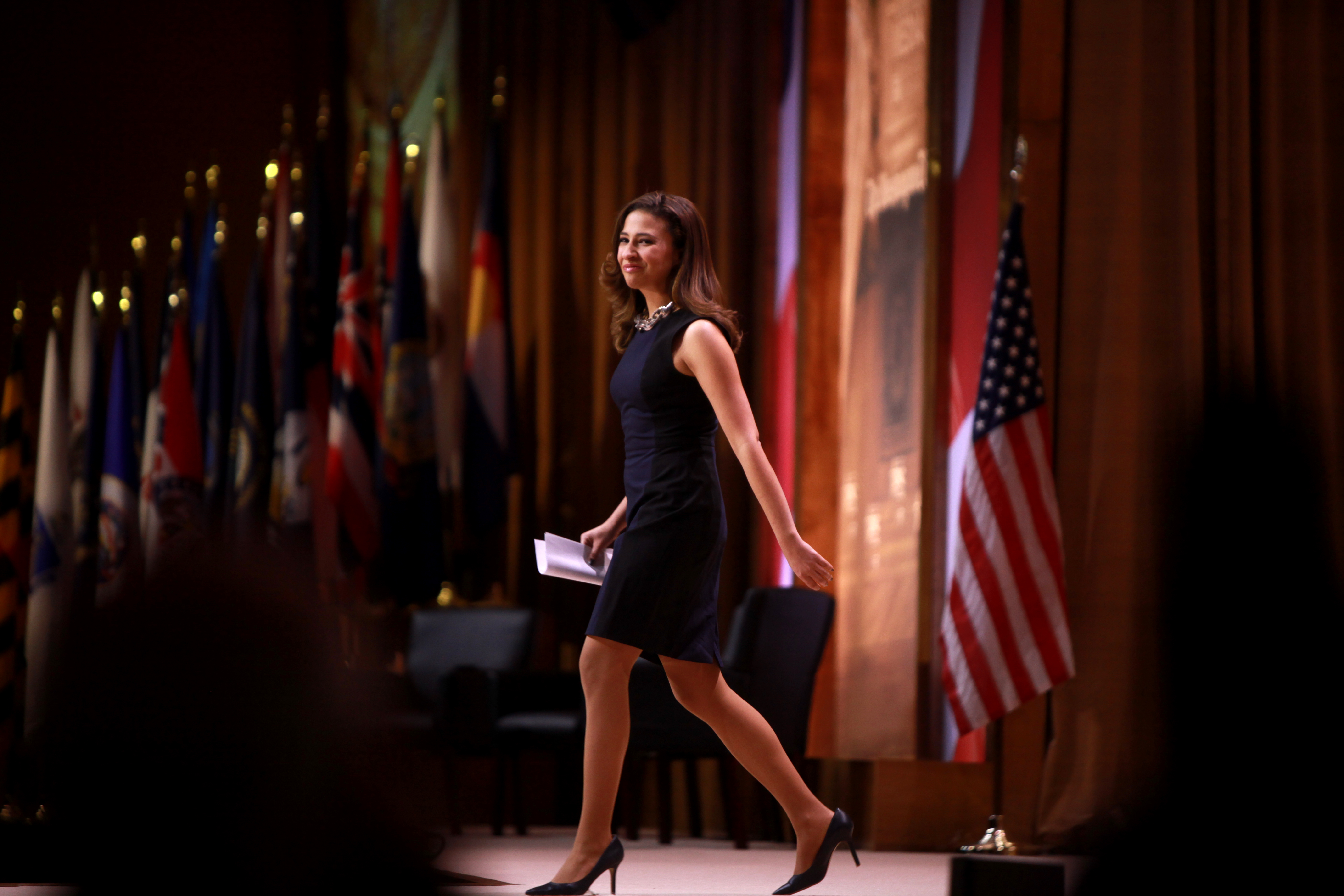 Former Miss America Erika Harold speaking at the 2014 Conservative Political Action Conference (CPAC) in National Harbor, Maryland.